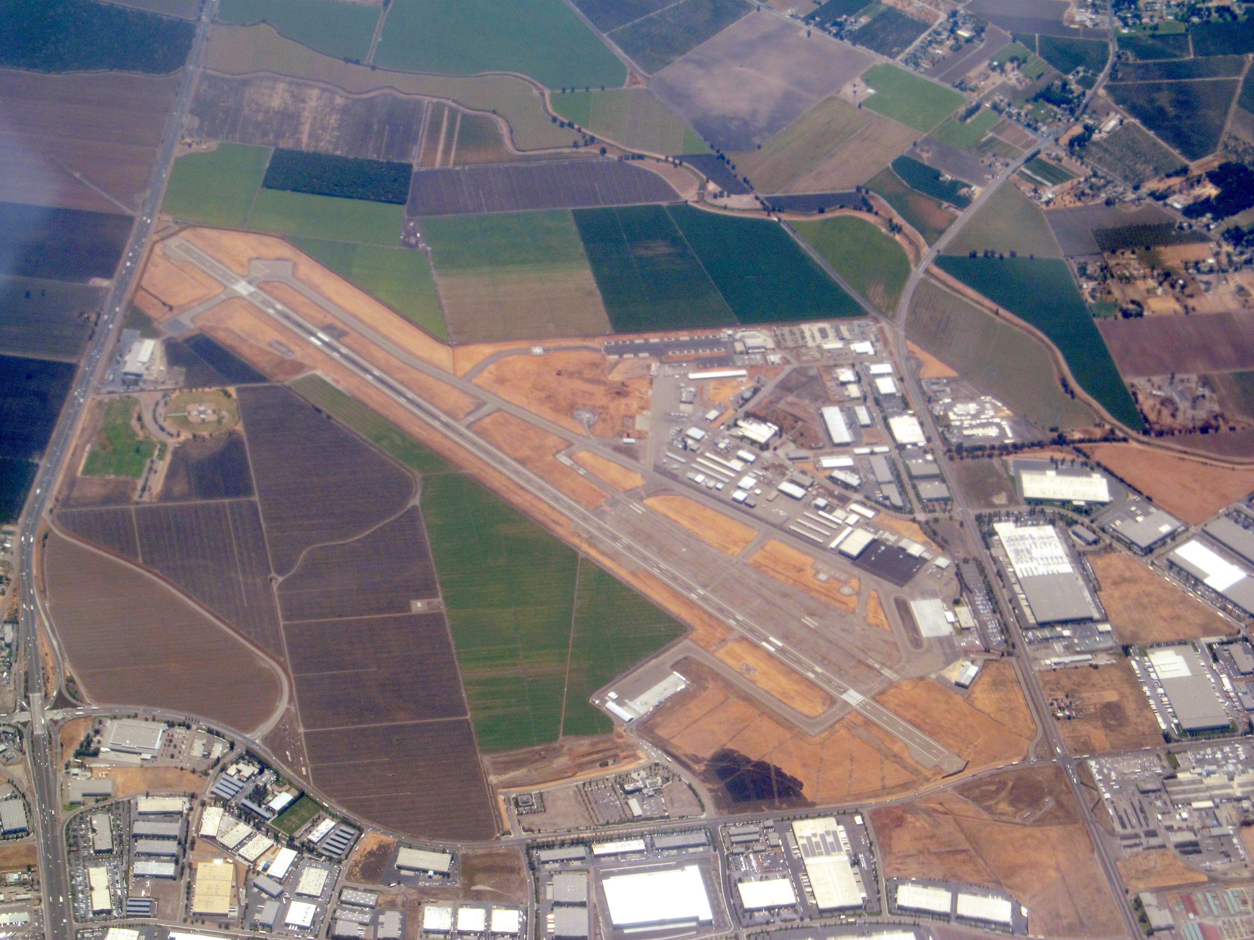 Aerial view of Stockton Metropolitan Airport in September 2017